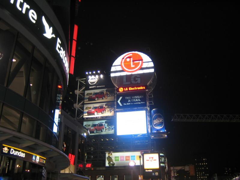 Billboards at Dundas Square, Toronto, Ontario, Canada.